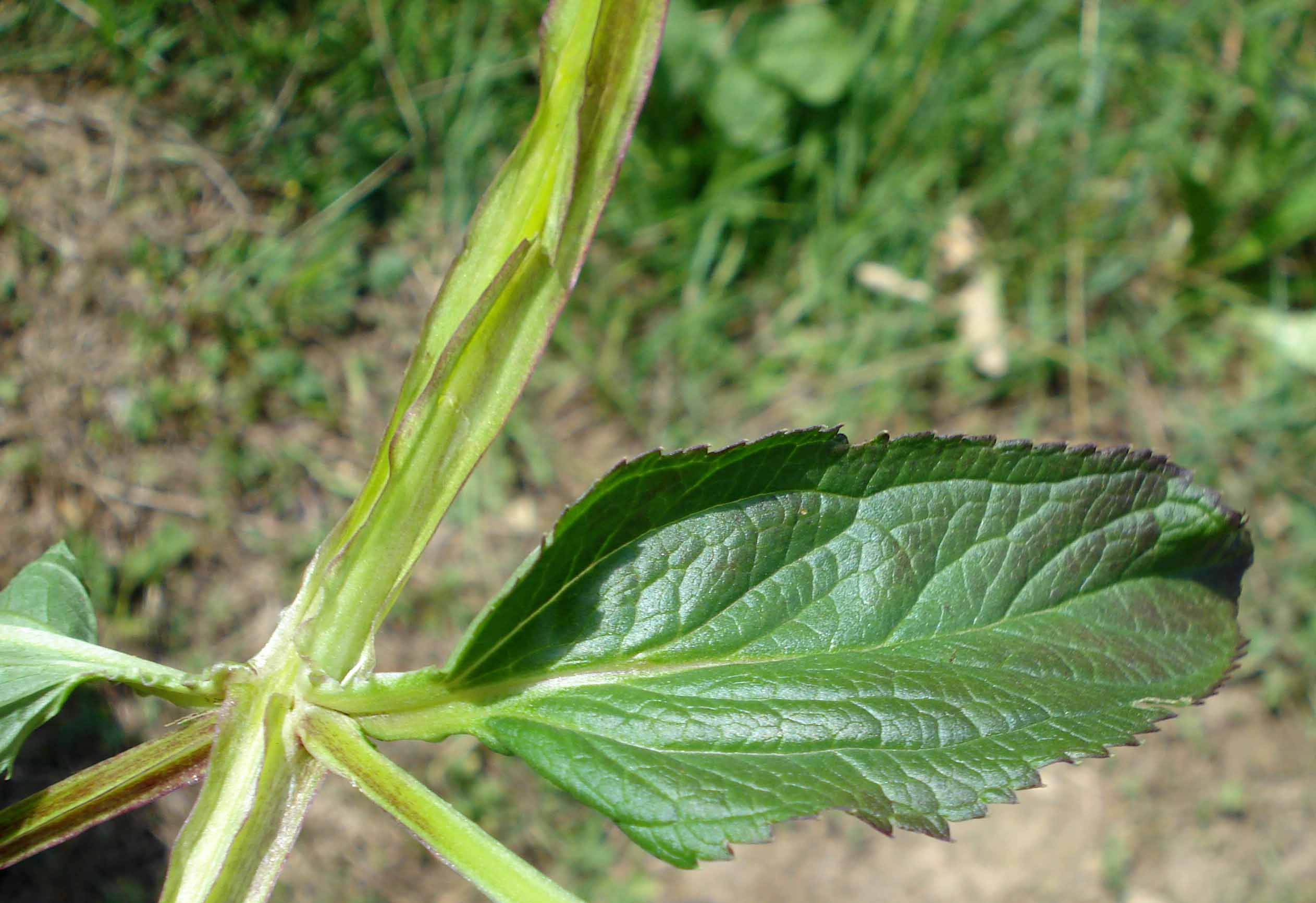 Scrophularia umbrosa (Unterfranken, Germany)